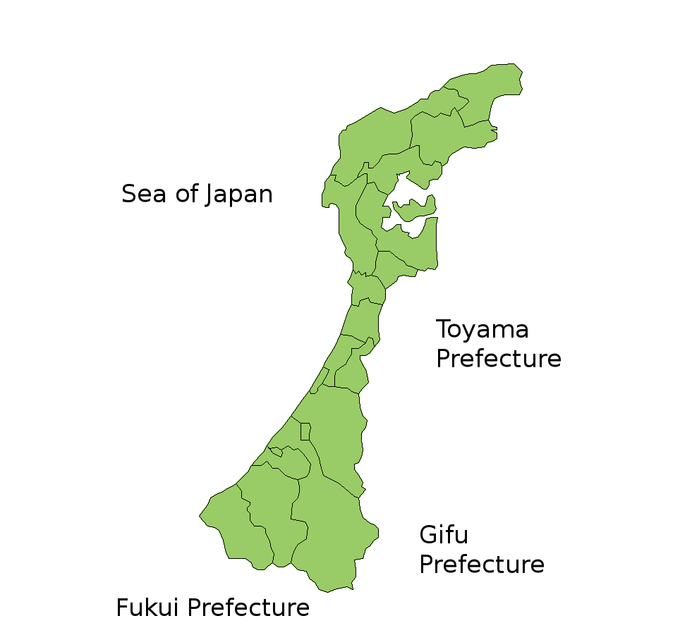 Map of Ishikawa Prefecture, Japan. Thanks to Aoki Shigenobu and [1]. Colors from Image:TokyoMapCurrent.png by User:Fg2.